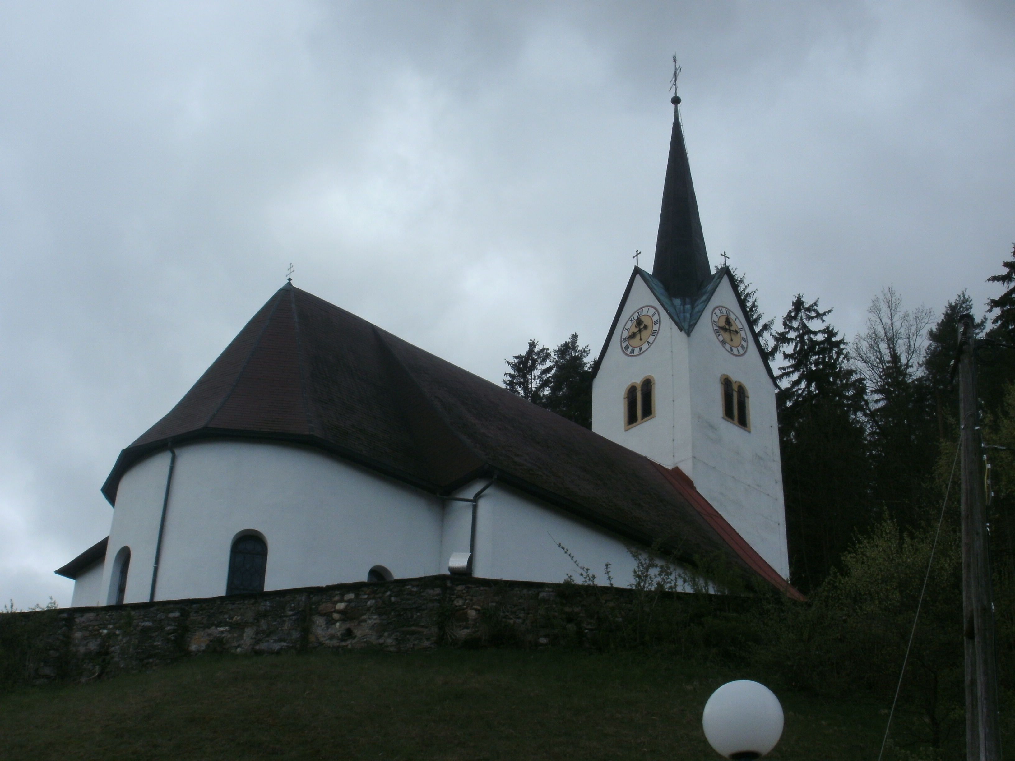 Libeliče church, Slovenia